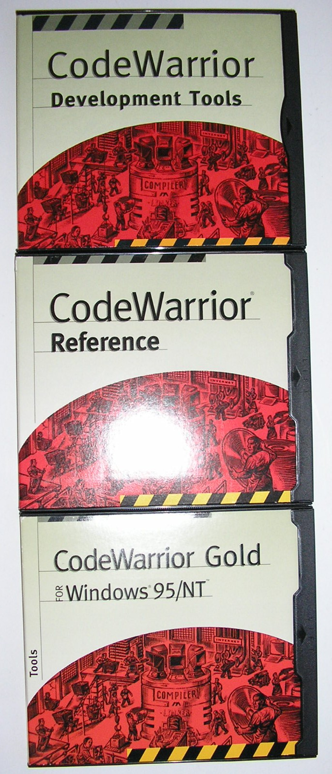 Metrowerks CodeWarrior Professional Release 1 For Mac OS Classic (PPC/68K) and Windows 95/NT. Product includes: CodeWarrior IDE v2.0 Microsoft Foundation Class Libraries (MFC 4.2) PowerPlant™ Application Framework for Mac OS Online Books Online Tutorials Minimum Requirements: Mac OS 68020 processor or higher, or PowerPC 601 or higher 8 MB of RAM minimum, 16 MB recommended Mac OS System 7.1 or later 80 MB free hard disk space Windows 95/NT 486 processor or higher, or Pentium processor or higher 16 MB of RAM minimum Windows 95 or Windows NT 4.0 80 MB free hard disk space The installer options on Mac OS: MacOS Heaven Java Heaven Win32/x86 Heaven MacOS Minimal Install CodeWarrior IDE CodeWarrior Apple Guides Metrowerks Debug for Mac OS/Java/Win32/x86 Metrowerks Standard Library Metrowerks C/C++ for Mac OS Metrowerks Pascal for Mac OS Metrowerks Java for Mac OS Metrowerks C/C++ for Win32/x86 Metrowerks Pascal for Win32/x86 Metrowerks PowerPlant Java Virtual Machines CodeWarrior MPW Other Metrowerks Tools